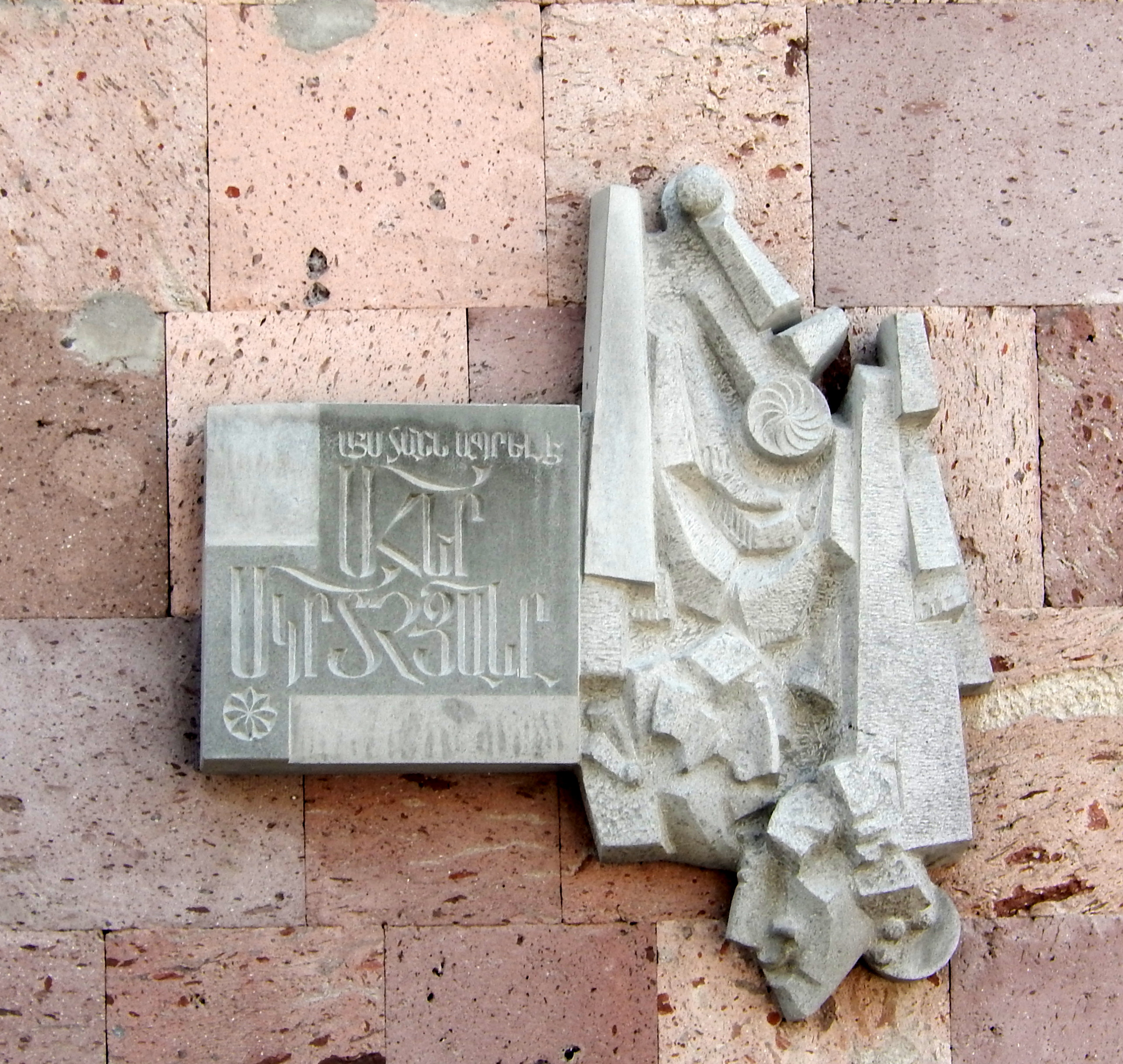 Mher Mkrtchyan's Plaque